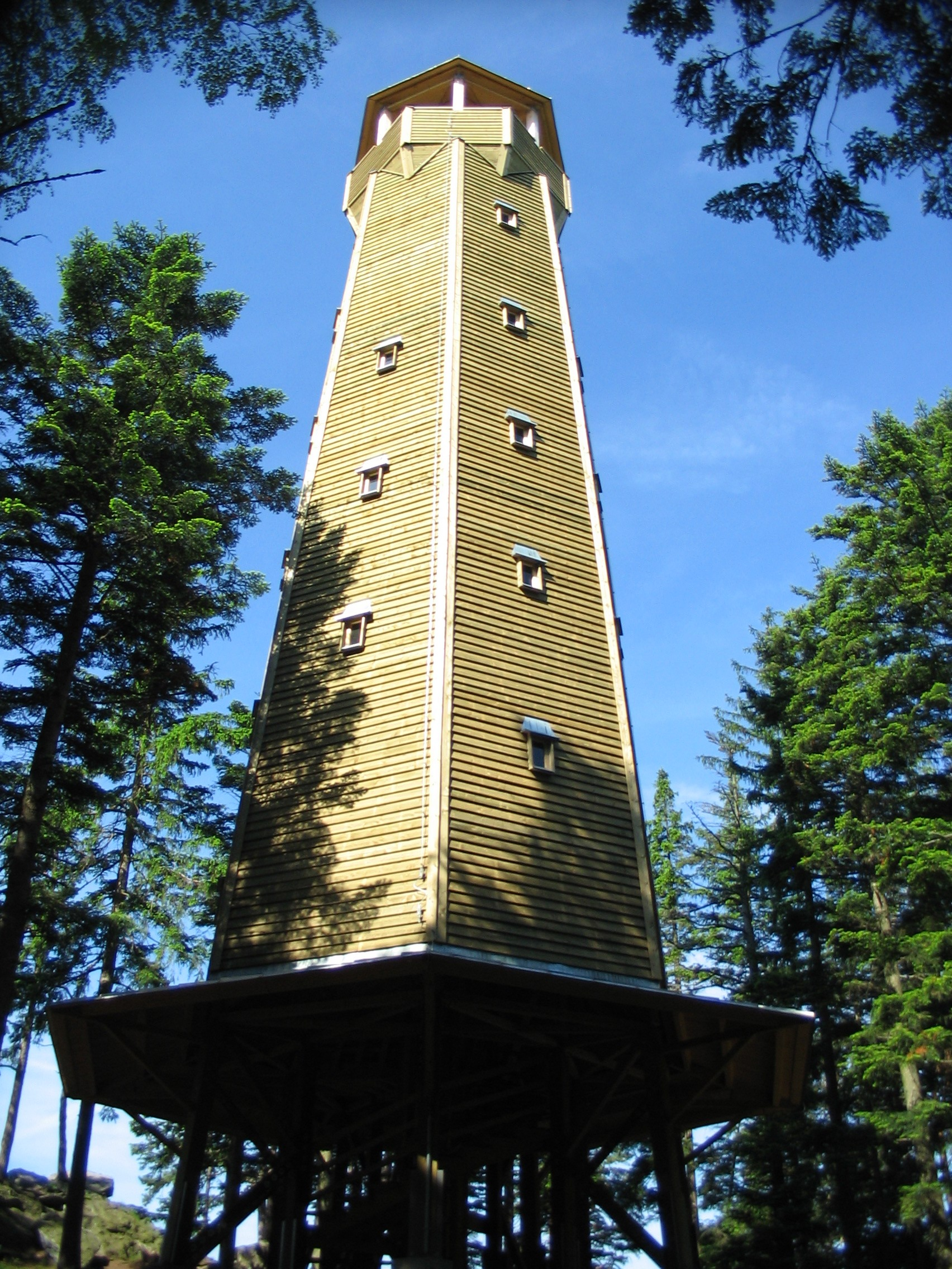 Outlook-tower on Sedlo (902 m), Klatovy District, Czech Republic